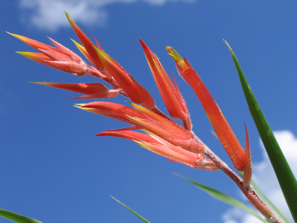 Pitcairnia prolifera in cultivation at the Botanical Garden of Heidelberg, Germany.